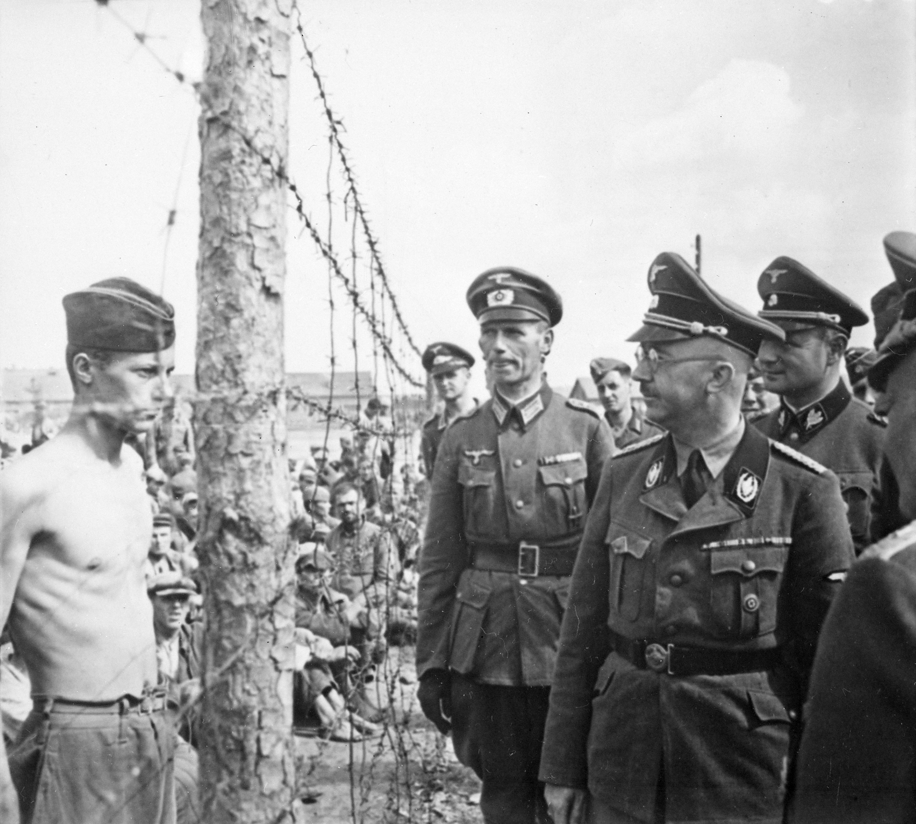 General notes: Use War and Conflict Number 1275 when ordering a reproduction or requesting information about this image.